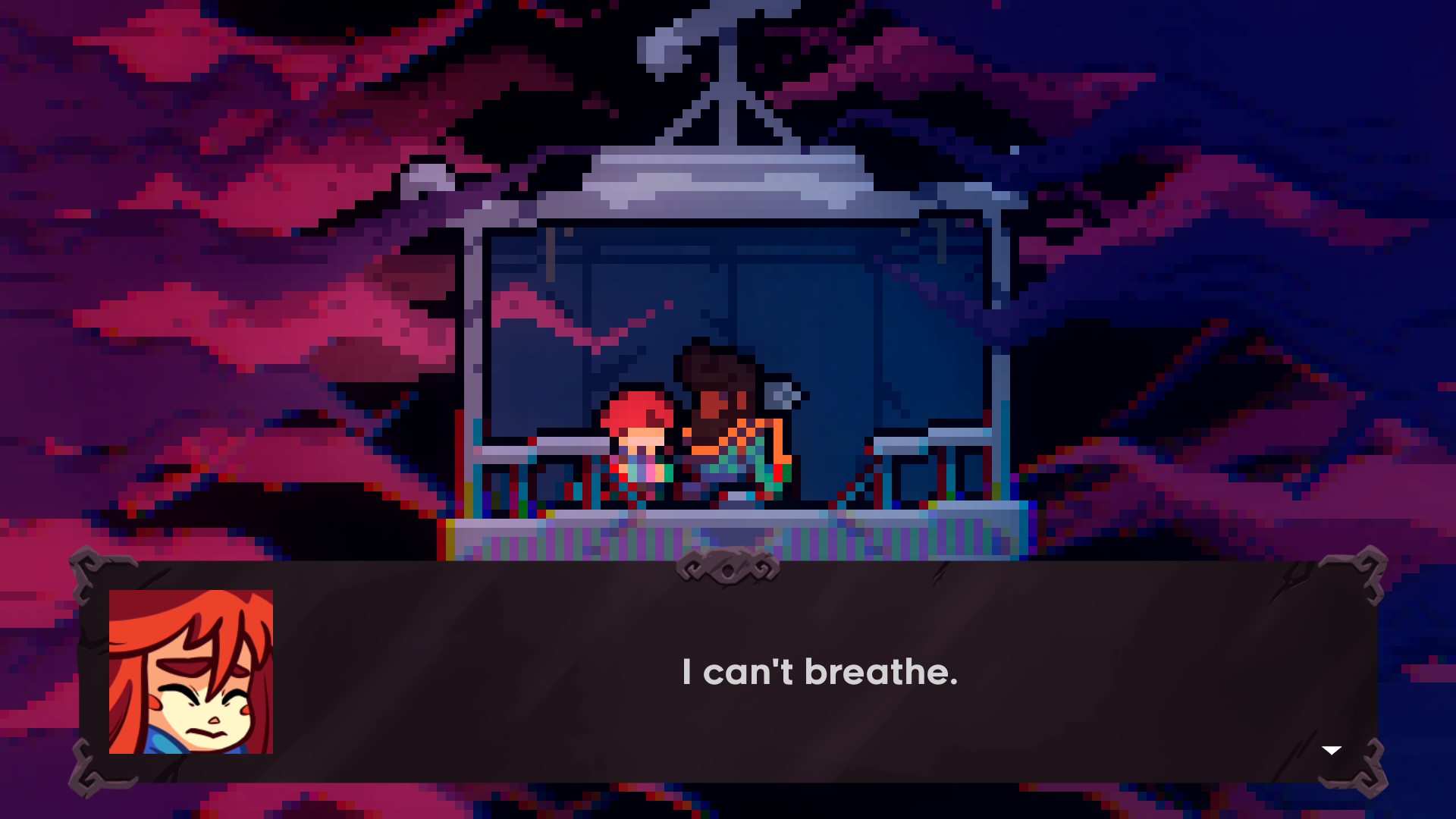 Screenshot of the 2018 video game Celeste